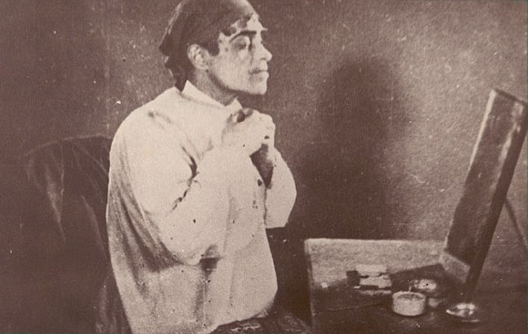 Telli - Movsun Sanani in the make-up room (for Telli role in "Arshin mal alan" operette). Tiflis.